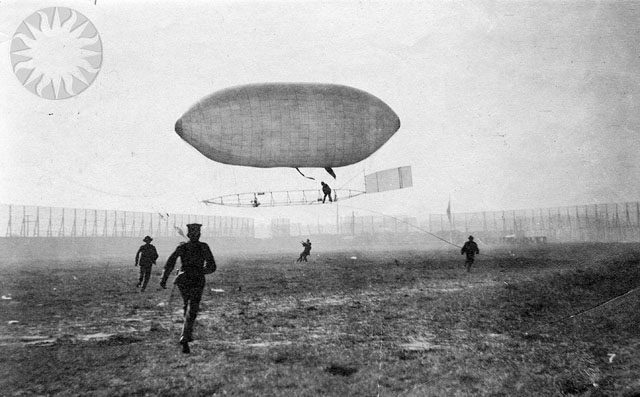 The 1904 Thomas Baldwin's "California Arrow" airship.